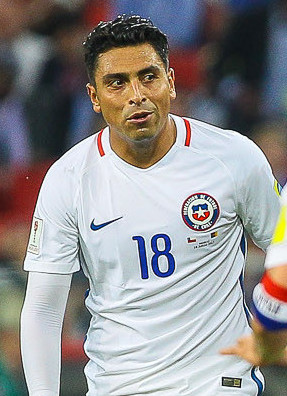 Cameroon vs Chile (0-2). FIFA Confederations Cup 2017